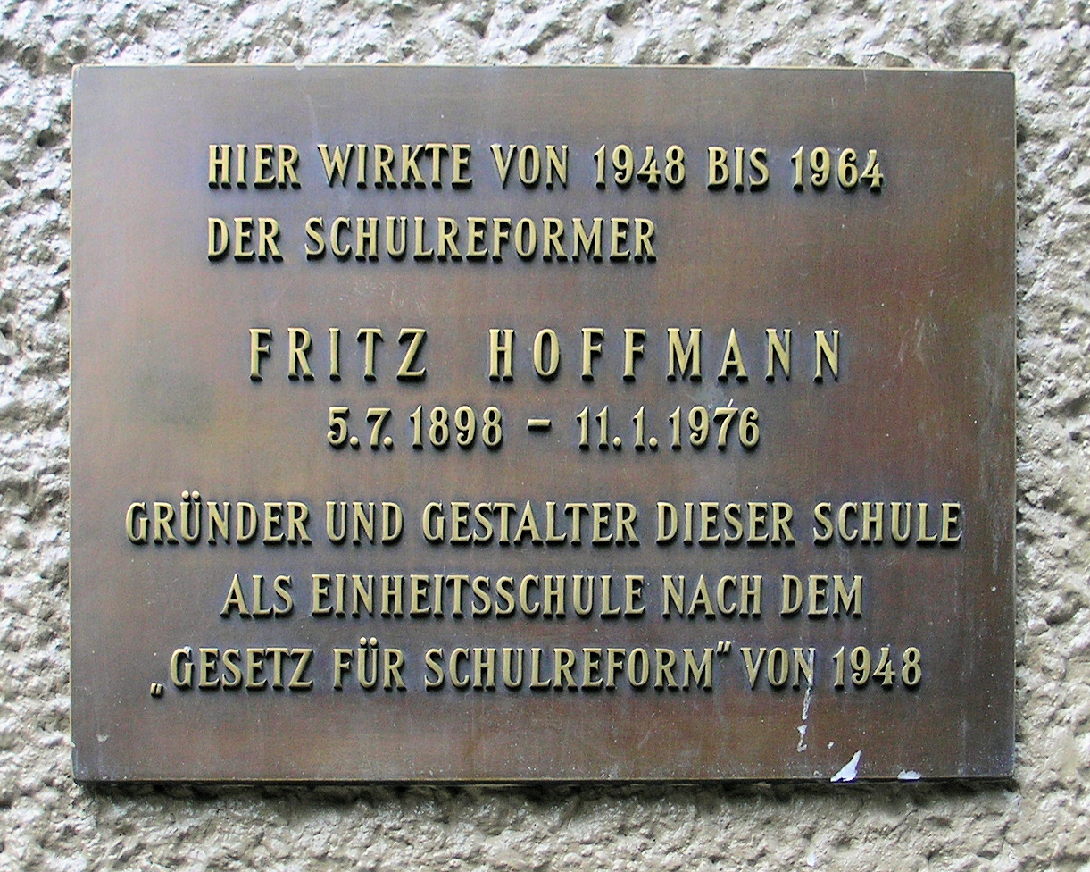 Memorial plaque, Fritz Hoffmann, Onkel-Bräsig-Straße 79, Berlin-Britz, Germany Koordinate:52°26′53″N 13°26′38″E / 52.44806°N 13.44389°E